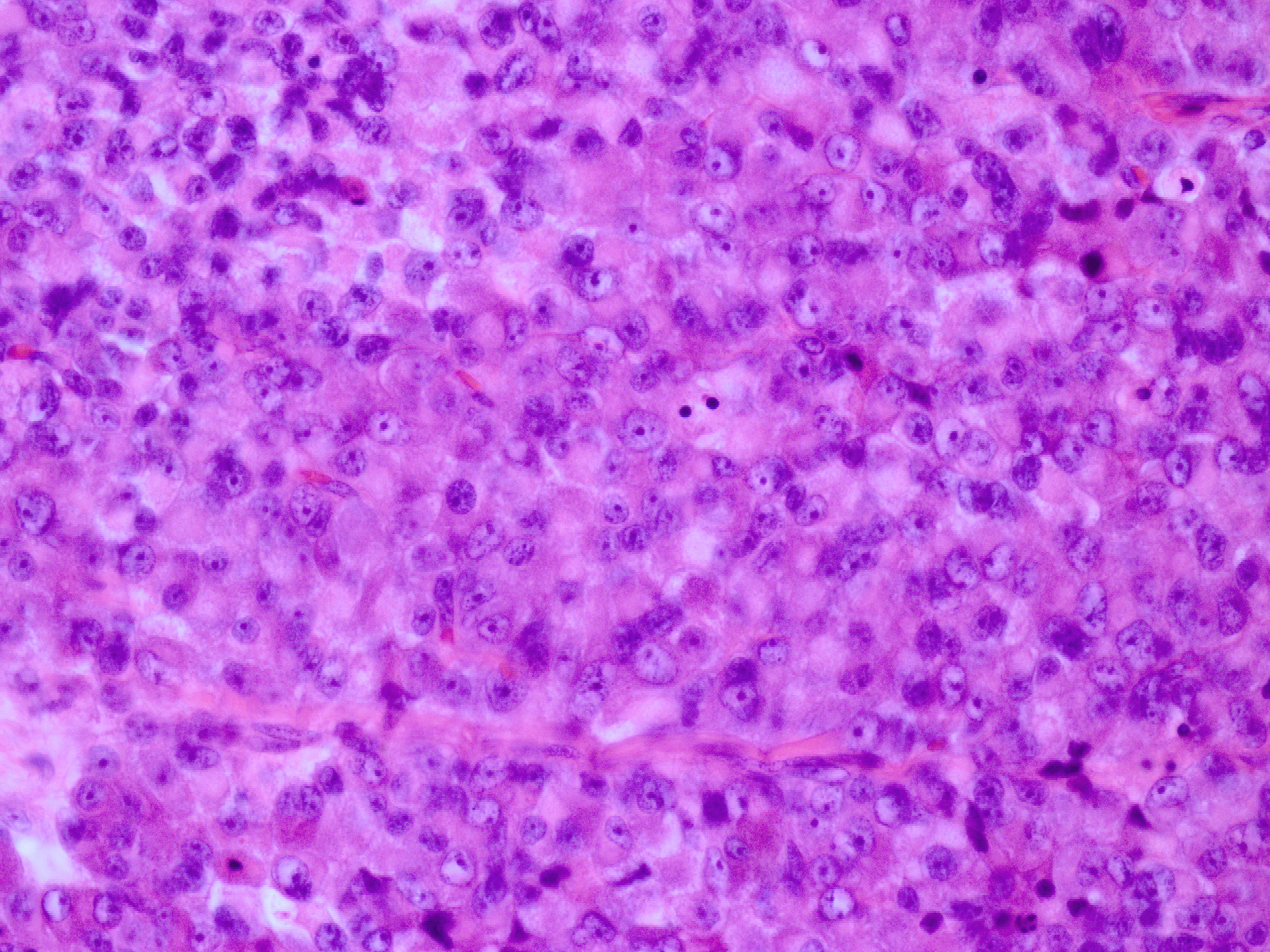 Histopathology of Crooke´s cell adenoma showing various Crooke cells with hyalinzed cytoplasms.